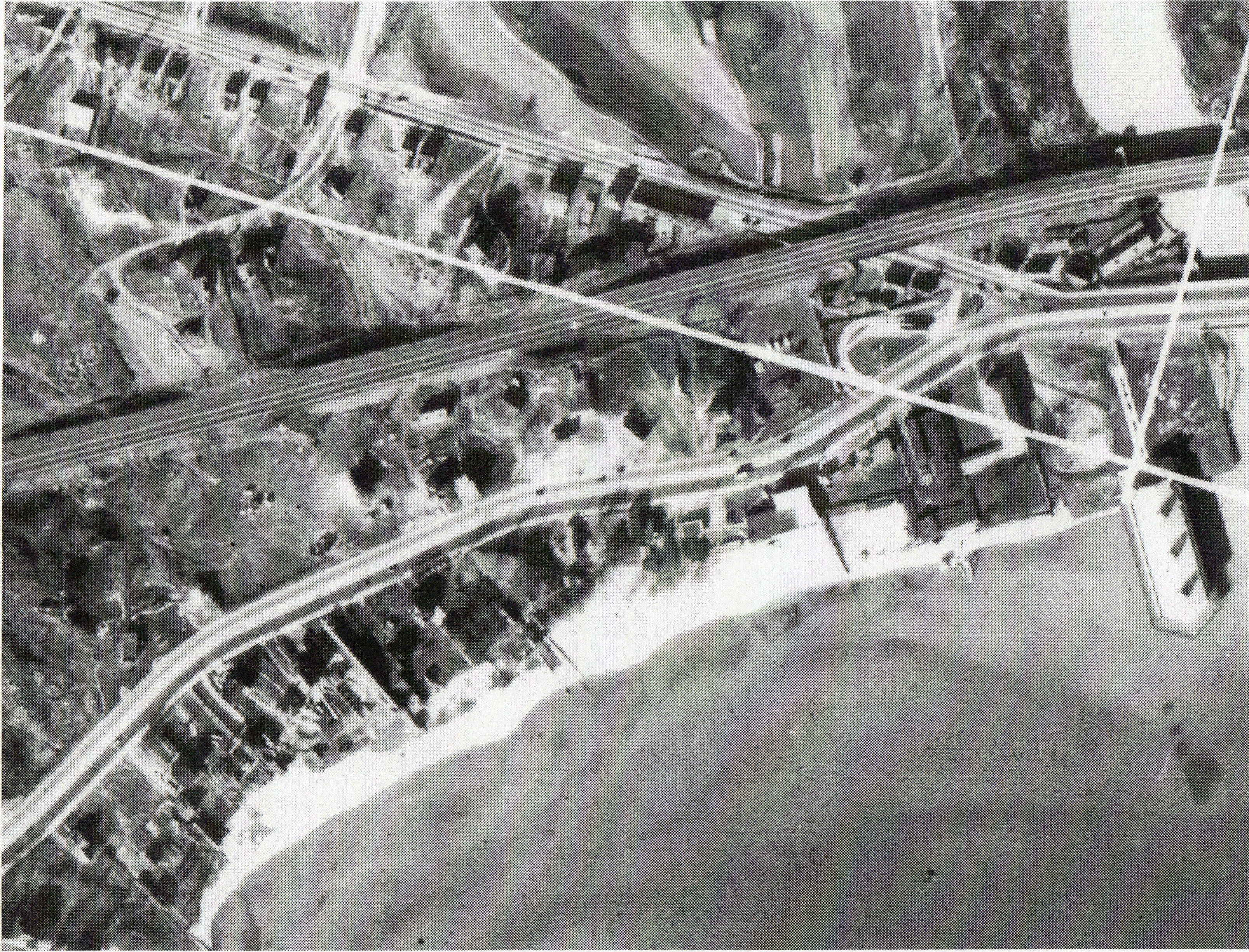 Aerial Photo of the intersection of the future Queensway and Lake Shore Rd in Humber Bay